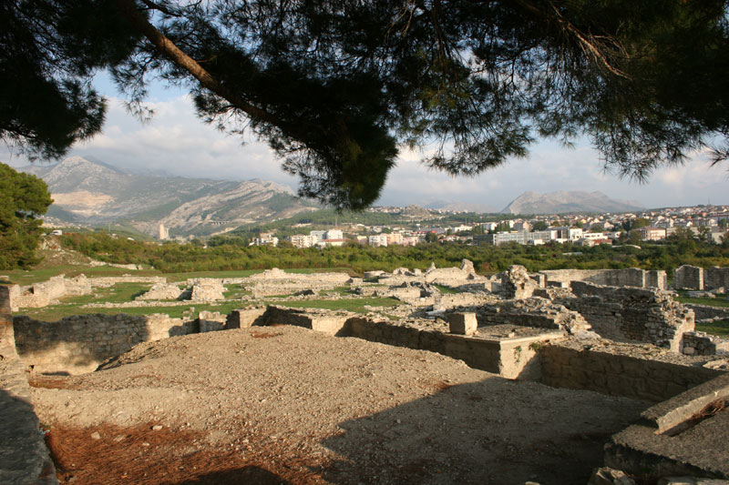 The ruins of Salona.